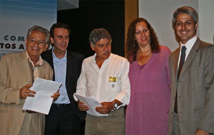 Brazilian politicians Fernando Gabeira, Eduardo Paes, Chico Alencar, Jandira Feghali and Alessandro Molon.Debate na Fecomércio